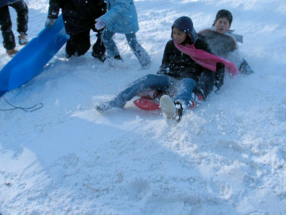 Sledding in Central Park, New YorkSledders